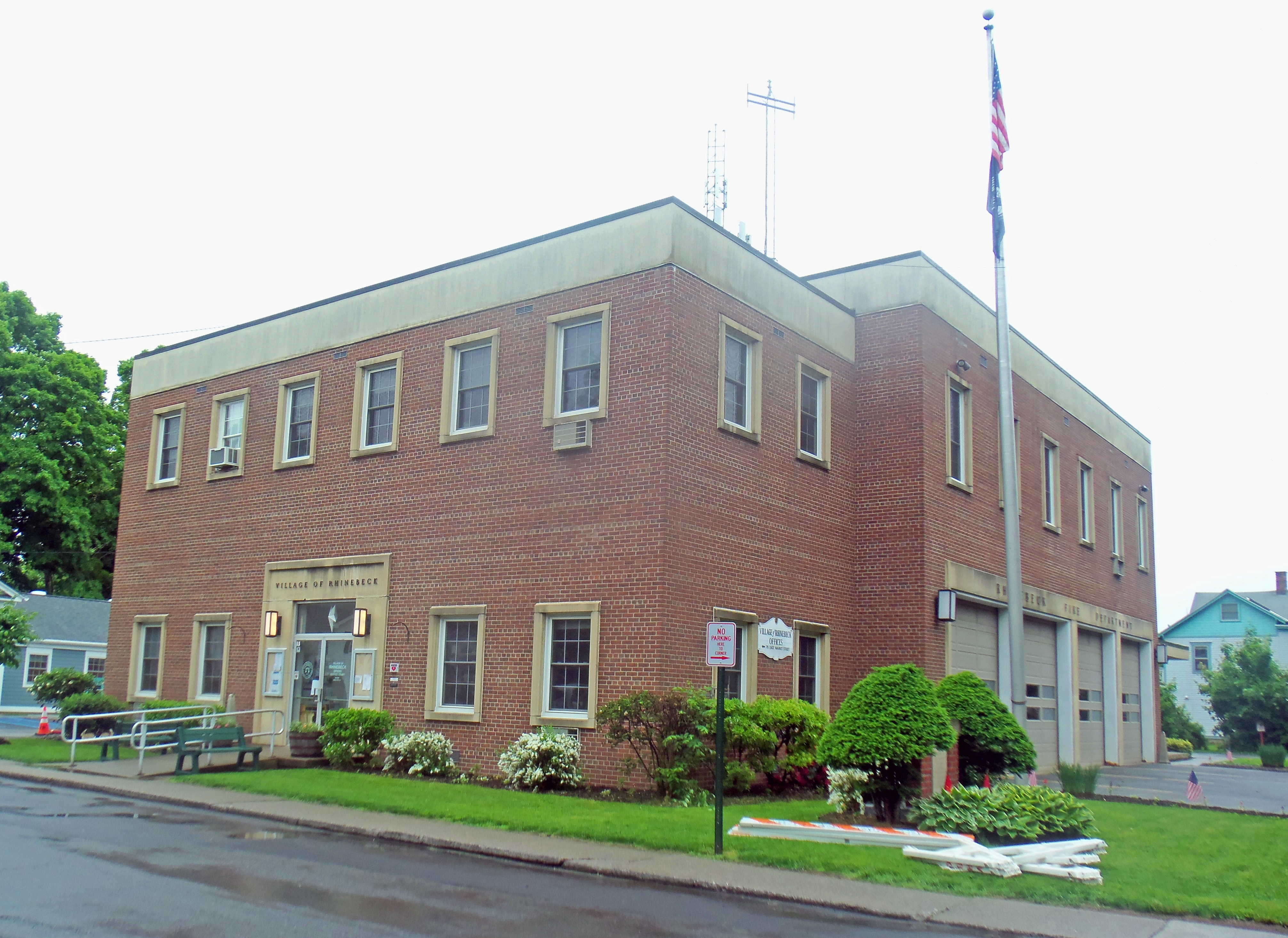 Village hall and fire station, Rhinebeck, NY, USA